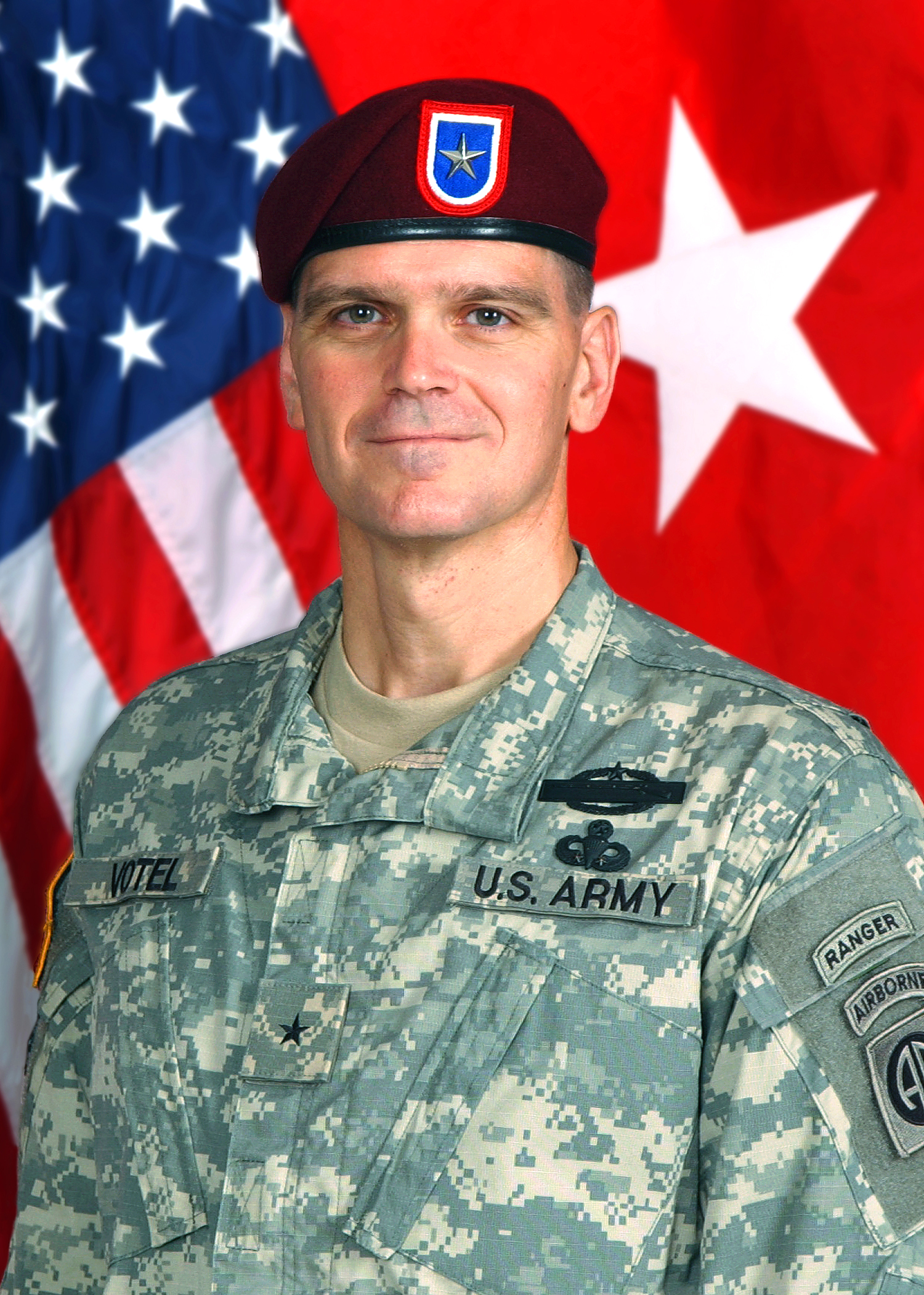 BG Joseph Votel, U.S. Army, Deputy Commanding General of the 82nd Airborne Division.